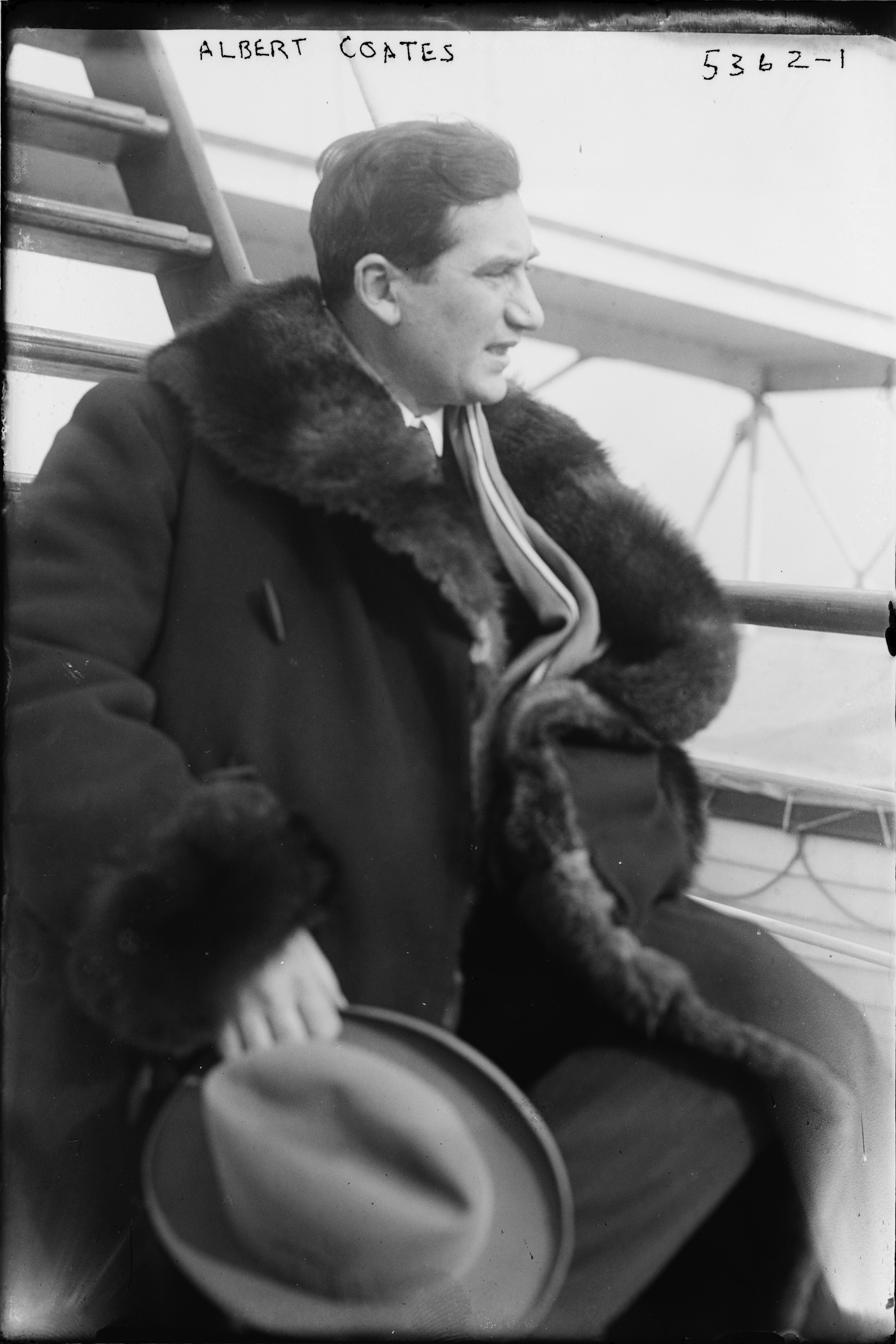 Title: Albert Coates Abstract/medium: 1 negative : glass ; 5 x 7 in. or smaller.